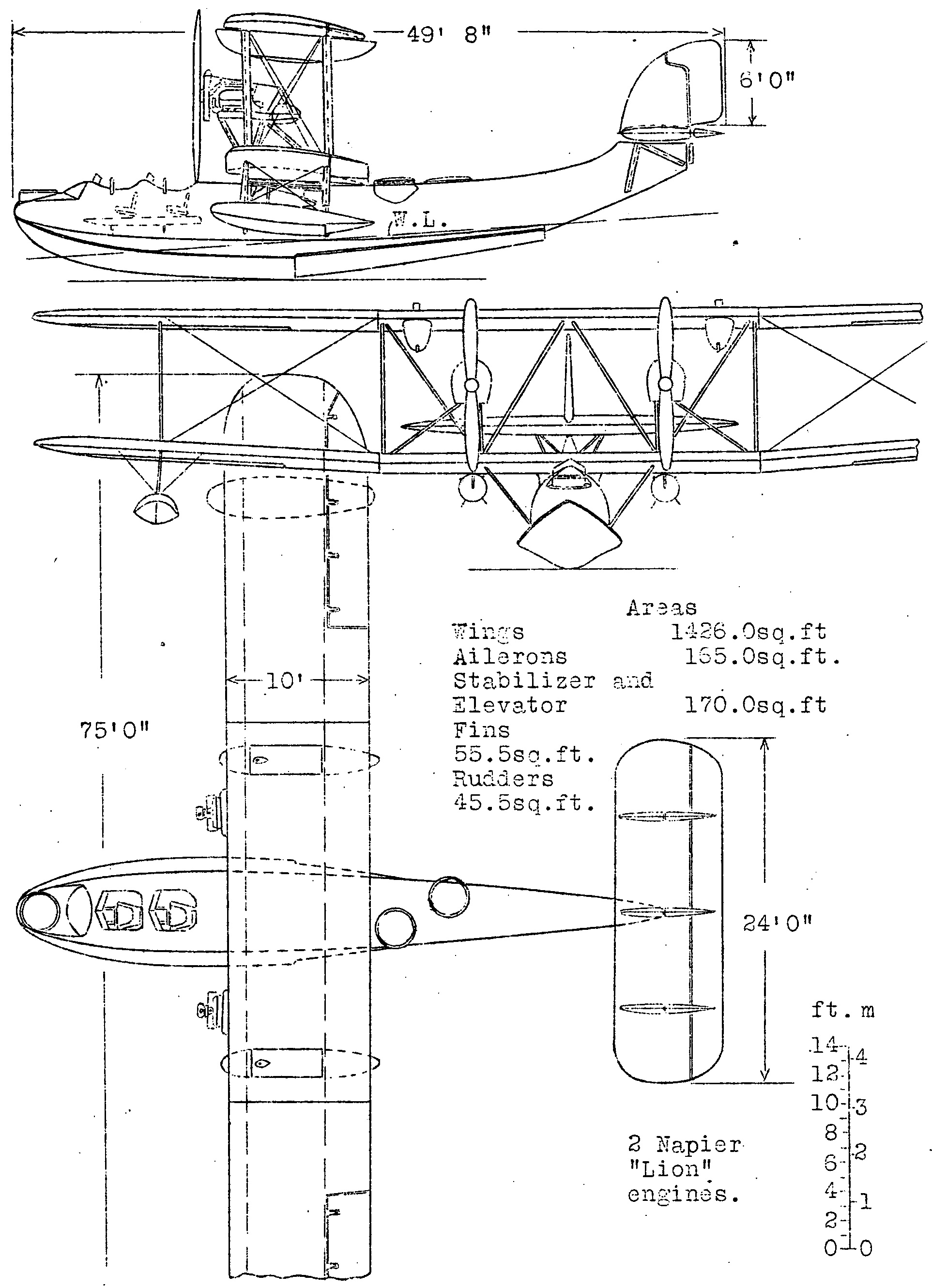 Supermarine Southampton 3-view drawing from NACA Aircraft Circular No.25